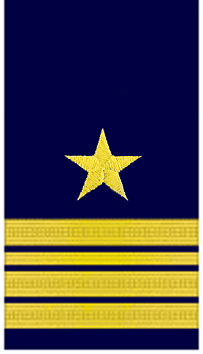 Military rank insignia of the German Kriegsmarine until 1945, here sleeve insignia commander, new from autumn ).